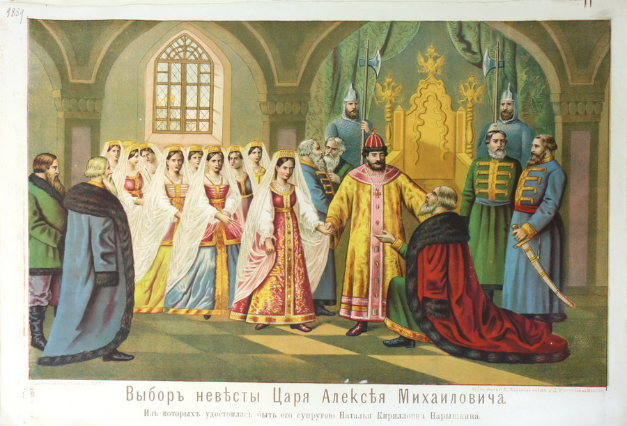 Tsar Alexey Mikhailovich choosing a wife.